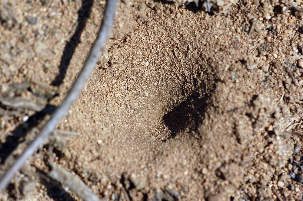 Euroleon nostras, Kelsterbach close to Frankfurt/Main, Germany